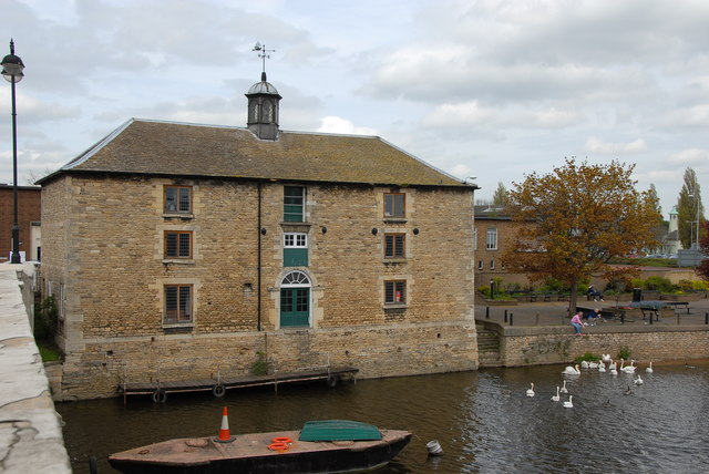 Old Customs House, Peterborough. Picture taken from Town Bridge, with the Old Customs House on the north bank of the river Nene. Listed in the Peterborough Local Plan, Appendix VIII as a scheduled monument - PE195.